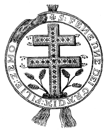 Fenenna Queen of Hungary seal